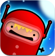 XMG Studio's icon for their game Cannon Cadets